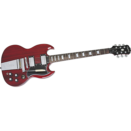 Epiphone G400 - 1965 reissue version